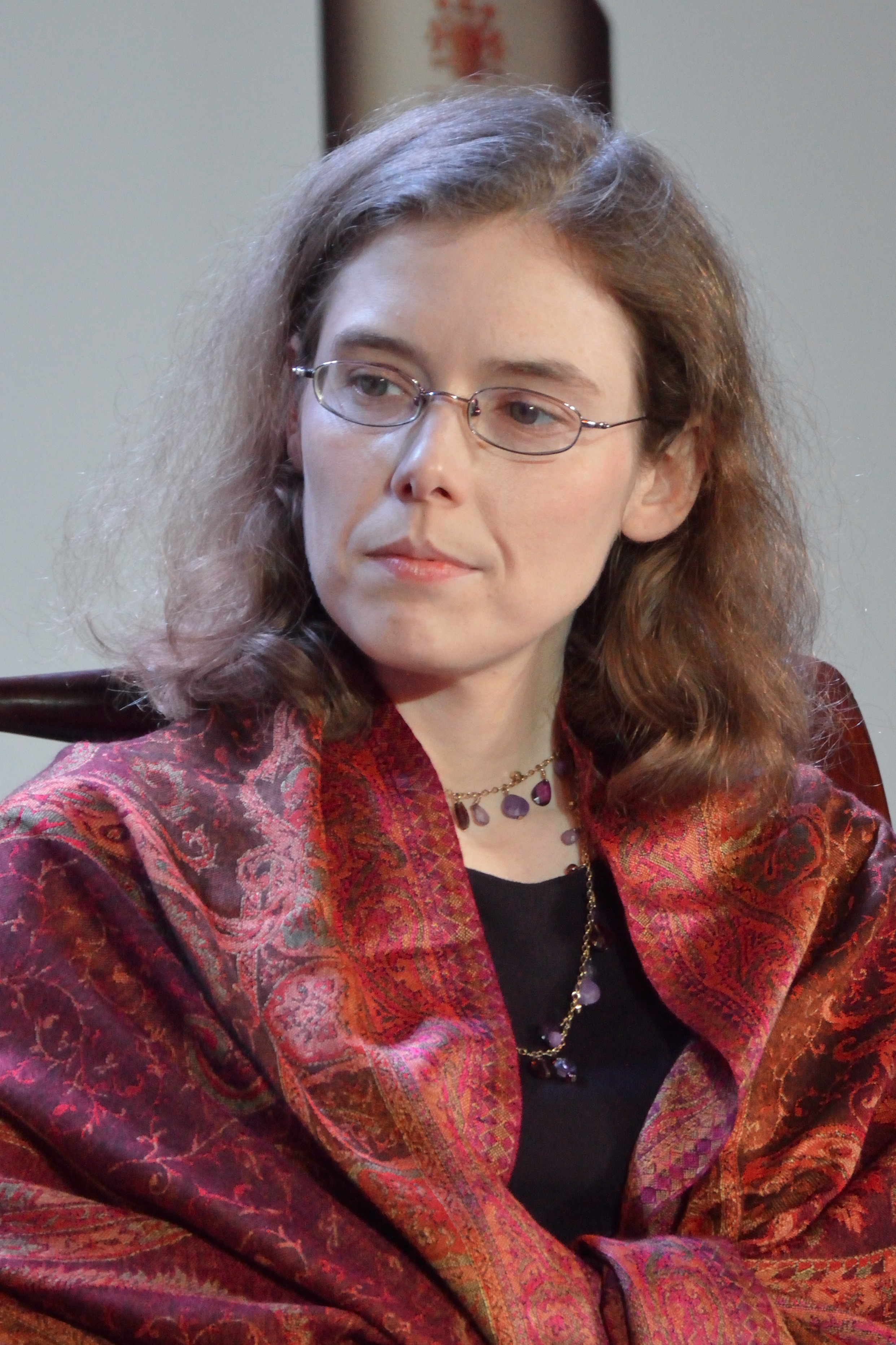 Madeline Miller was born in Boston, and grew up in New York City and Philadelphia. She studied at Brown University, from where she earned a BA and MA in the Classics. Her debut novel, The Song of Achilles, took ten years to write during which time she taught high school Shakespeare, Greek and Latin. The book, a New York Times bestseller, won the 2012 Orange Prize for Fiction and has been translated into 14 languages including Greek, Turkish, Arabic, Japanese and Mandarin. She also studied at the Yale School of Drama and the University of Chicago’s Committee on Social Thought. She lives in Cambridge, Massachusetts, where she teaches and writes. This shot was taken during the annual 'Kolkata Literary Meet 2013' was a part of the 'International Kolkata Book Fair 2013' held at the Milan Mela ground. It is a five day talk and interaction with general public of renowned persons from India and abroad.